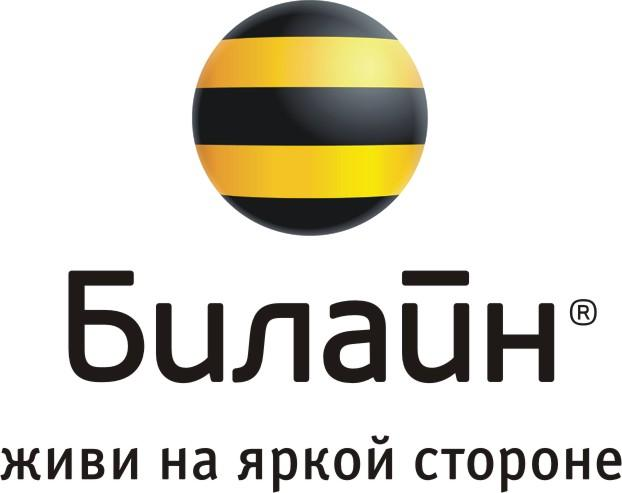 Trade Mark "Beeline"